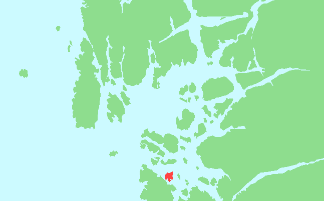 Locator map of Hundvåg, Rogaland, Norway